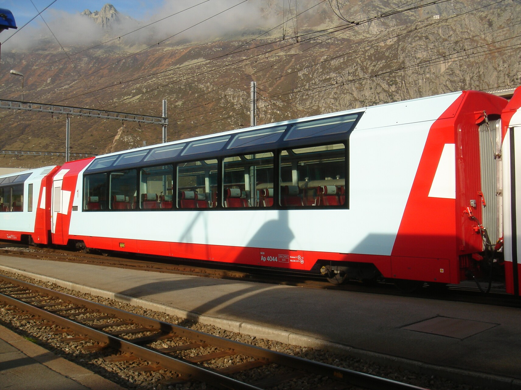 Matterhorn Gotthard Bahn panoramic coach Ap 4044, built by Stadler, at Andermatt